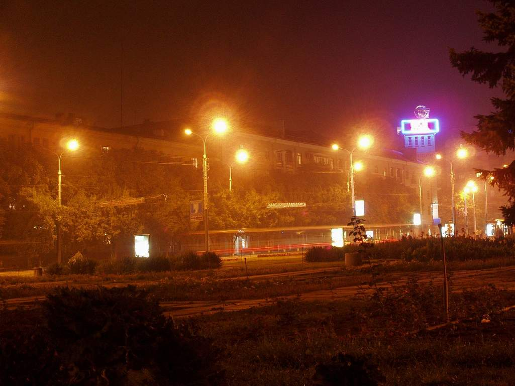 photo